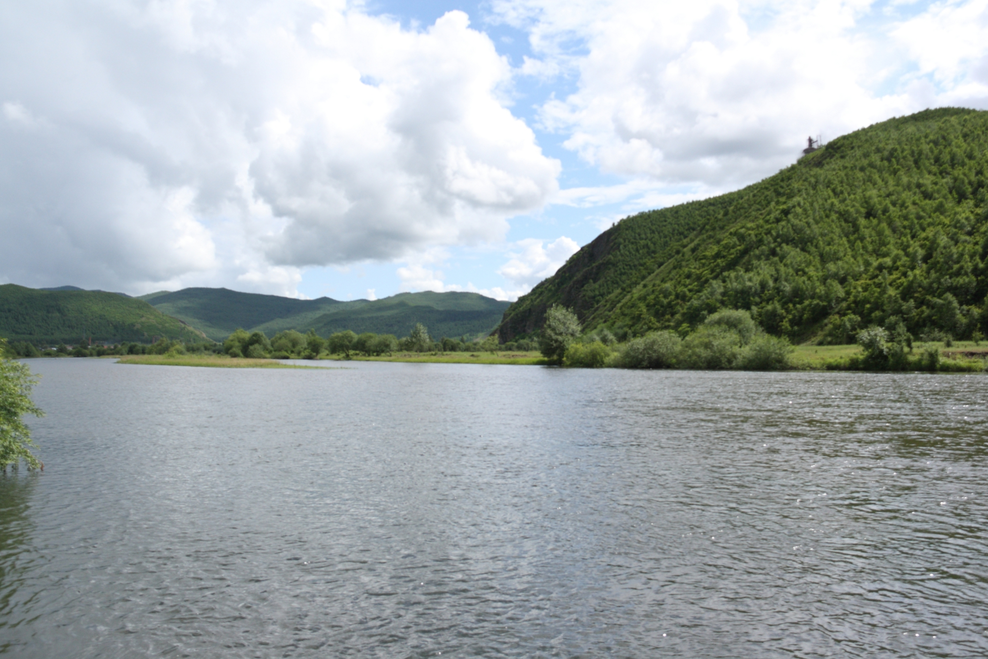 Yalu river (nonni river tributary) in Greater Khingan range, Manchuria, China